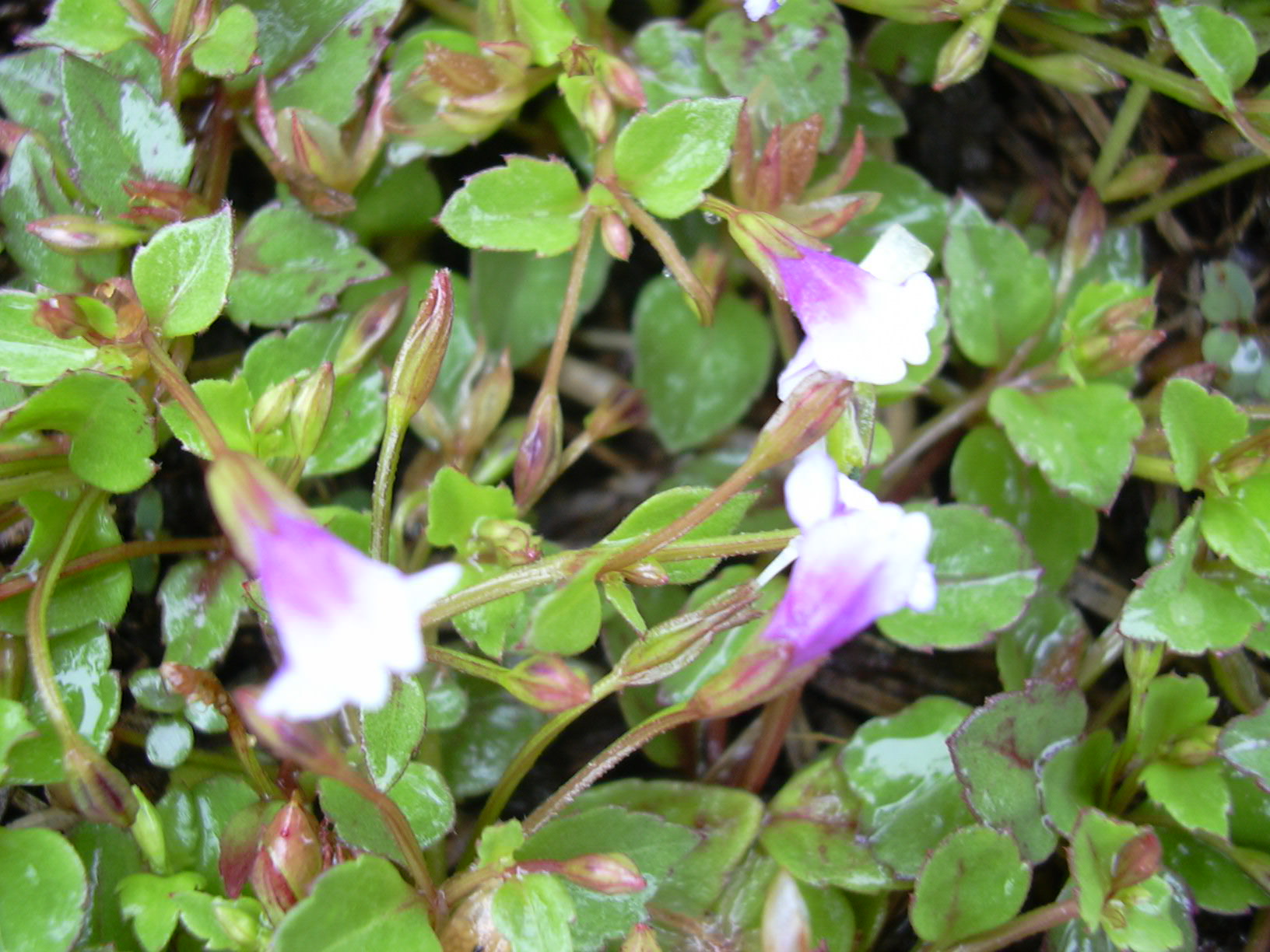 Lindernia crustacea (flowers). Location: Hawaii, Hilo